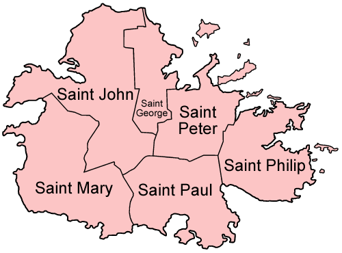 Map of the parishes of Antigua, named, for people who want to print a map or not deal with the numbered maps. Made by User:Golbez.